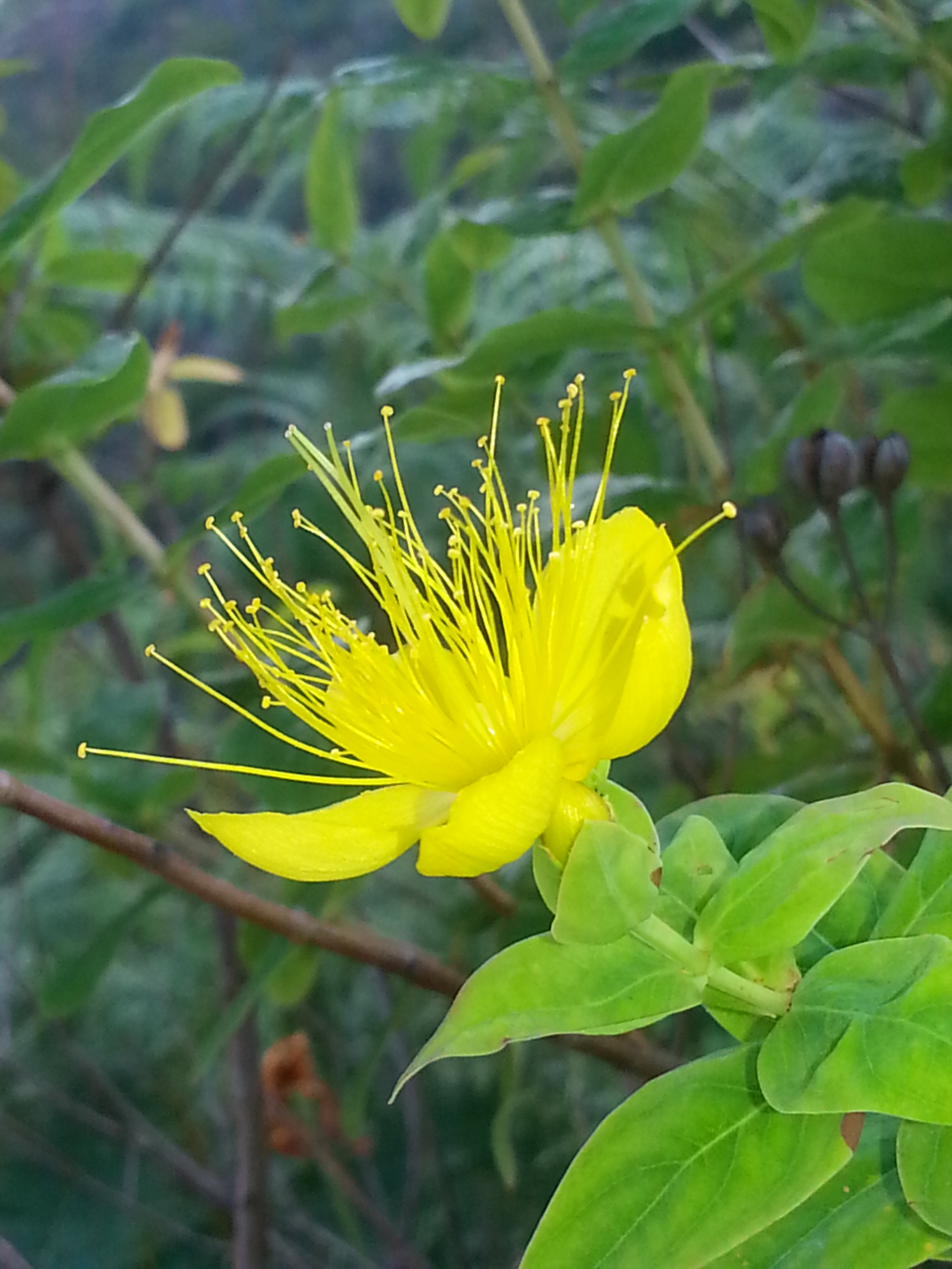 Hypericum hircinum Flower and leaves. Salina (Eolian Islands).